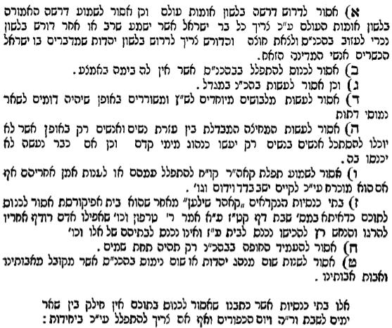 The Michalovce Rabbinical Decree, issued on 28 November 1865, as printed in the 1869 edition of "Lev ha'Ivri", published in Lemberg.